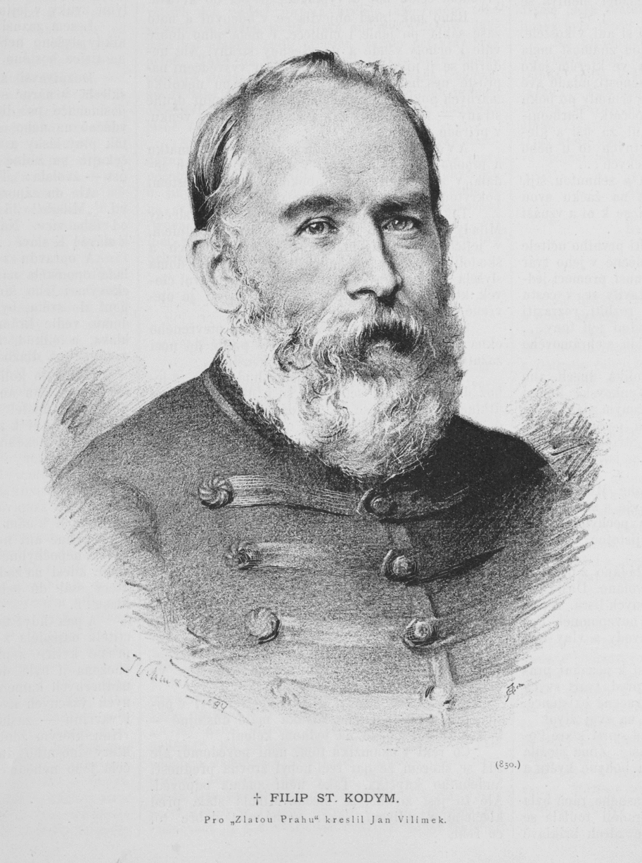 Portrait of Filip Stanislav Kodym (1811-1884), Czech physician, author of popular science literature and politician.